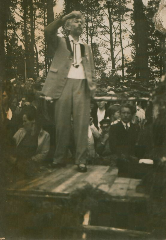 Vydūnas delivers a speech during a funeral of a member of the Lithuanian Riflemen's Union